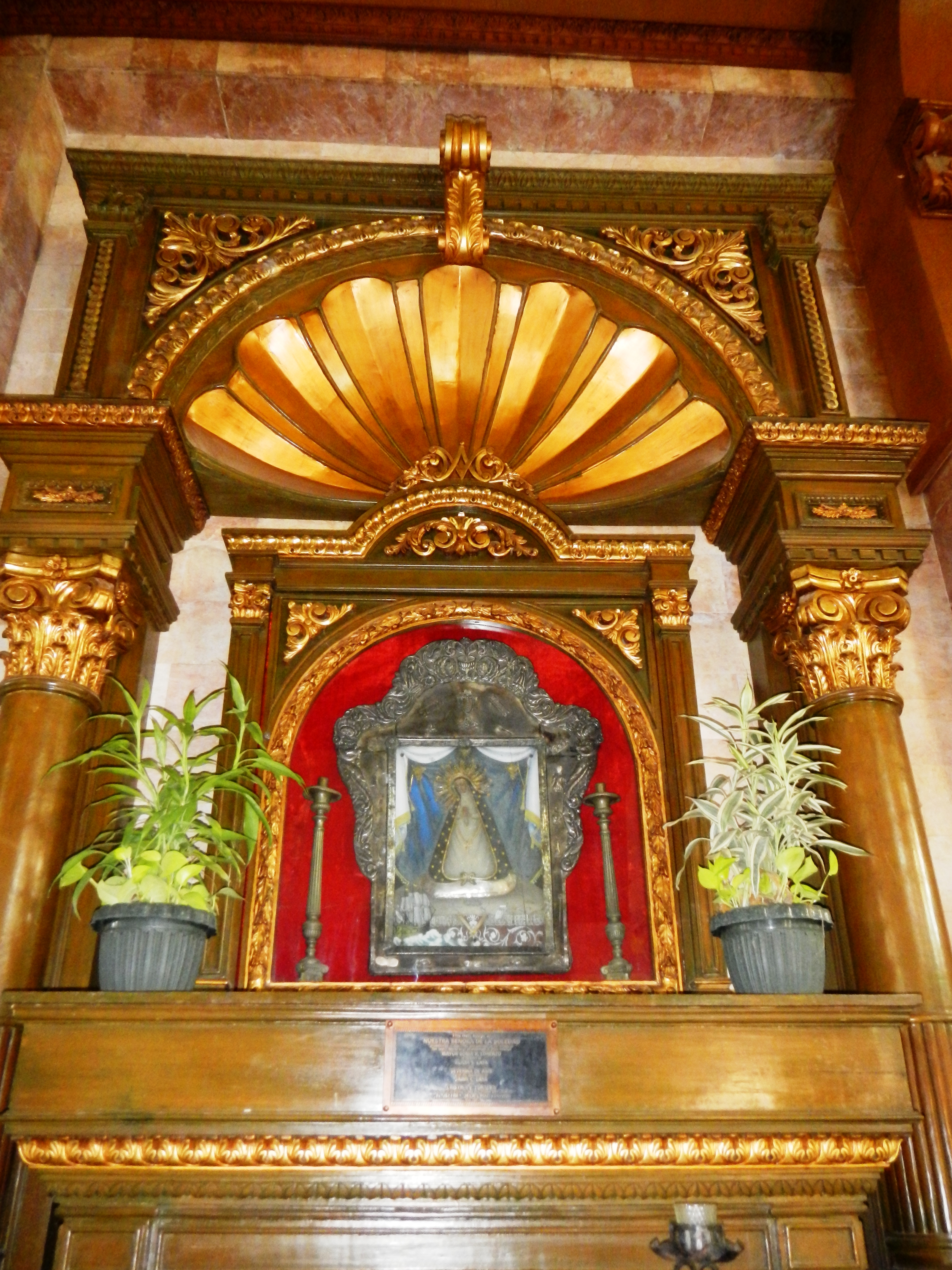 Saint Isidore the Farmer Church in San Isidro, Nueva Ecija (Rev. Fr. Armando DC. Caleon, May 15 of the Roman Catholic Diocese of Cabanatuan with the image of Nuestra Señora de la Soledad María de la Soledad, and 2 heritage church bells in Barangay Poblacion, San Isidro, Nueva Ecija [1] province, along Jose Abad Santos Avenue).